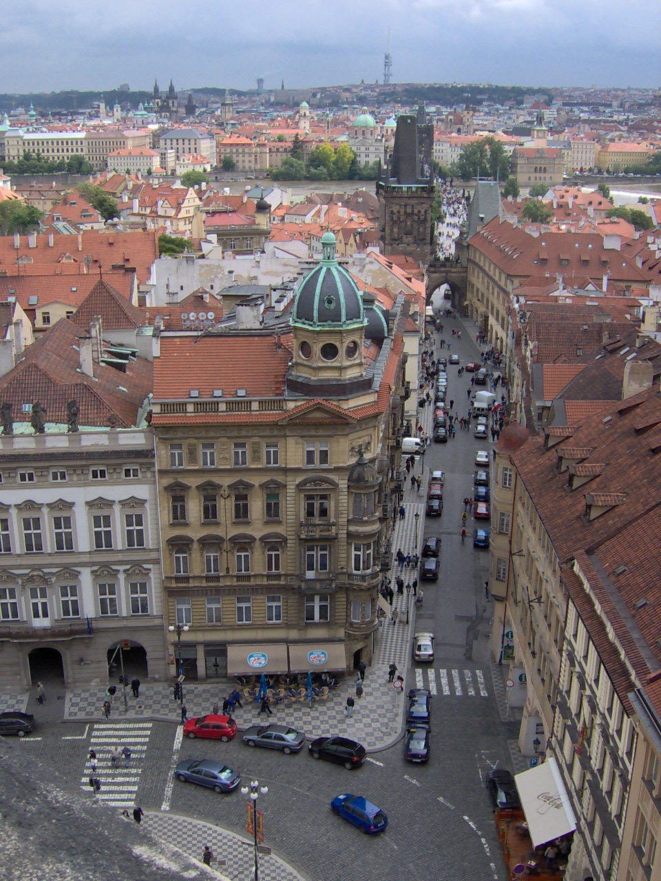 Building of former Lesser Town Savings Bank, next to Kaiserstein Palast, Lesser Town, Prague